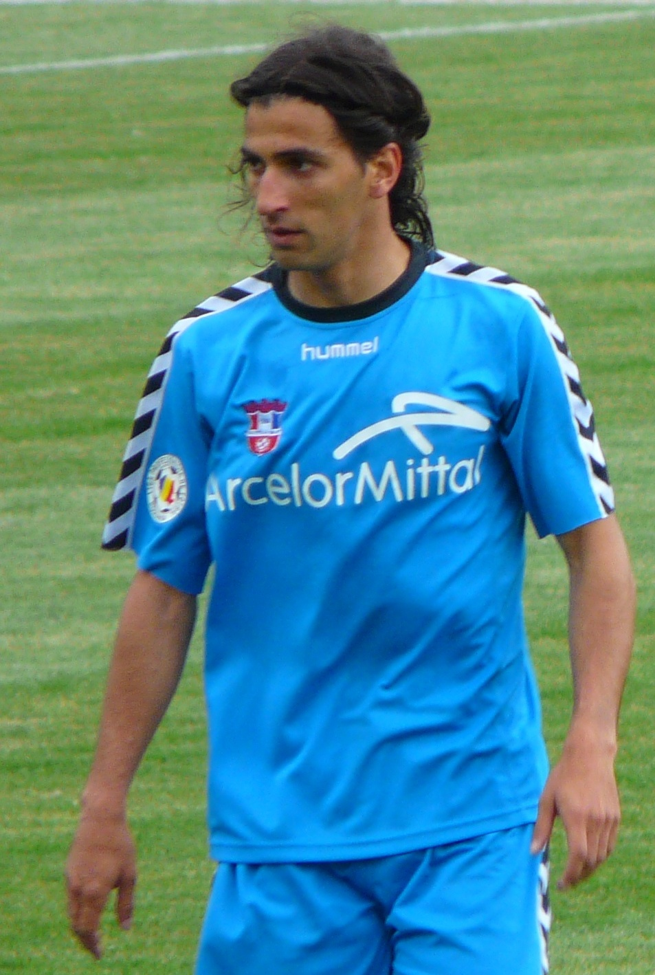 Gabriel Viglianti in May 2010, during Otelul - Vaslui